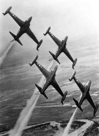 The U.S. Colorado Air National Guard Minute Men aerobatics team pull a banking turn in their Lockheed T-33A Shooting Stars during one of their air shows in 1956. The jets were painted in the U.S. Air Force colours of blue and white with the team name Minute Men stenciled on the fuselage.